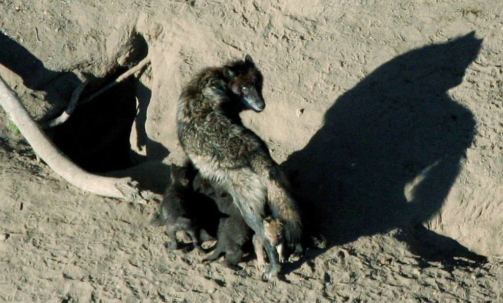 A wolf nurses her pups outside their den.